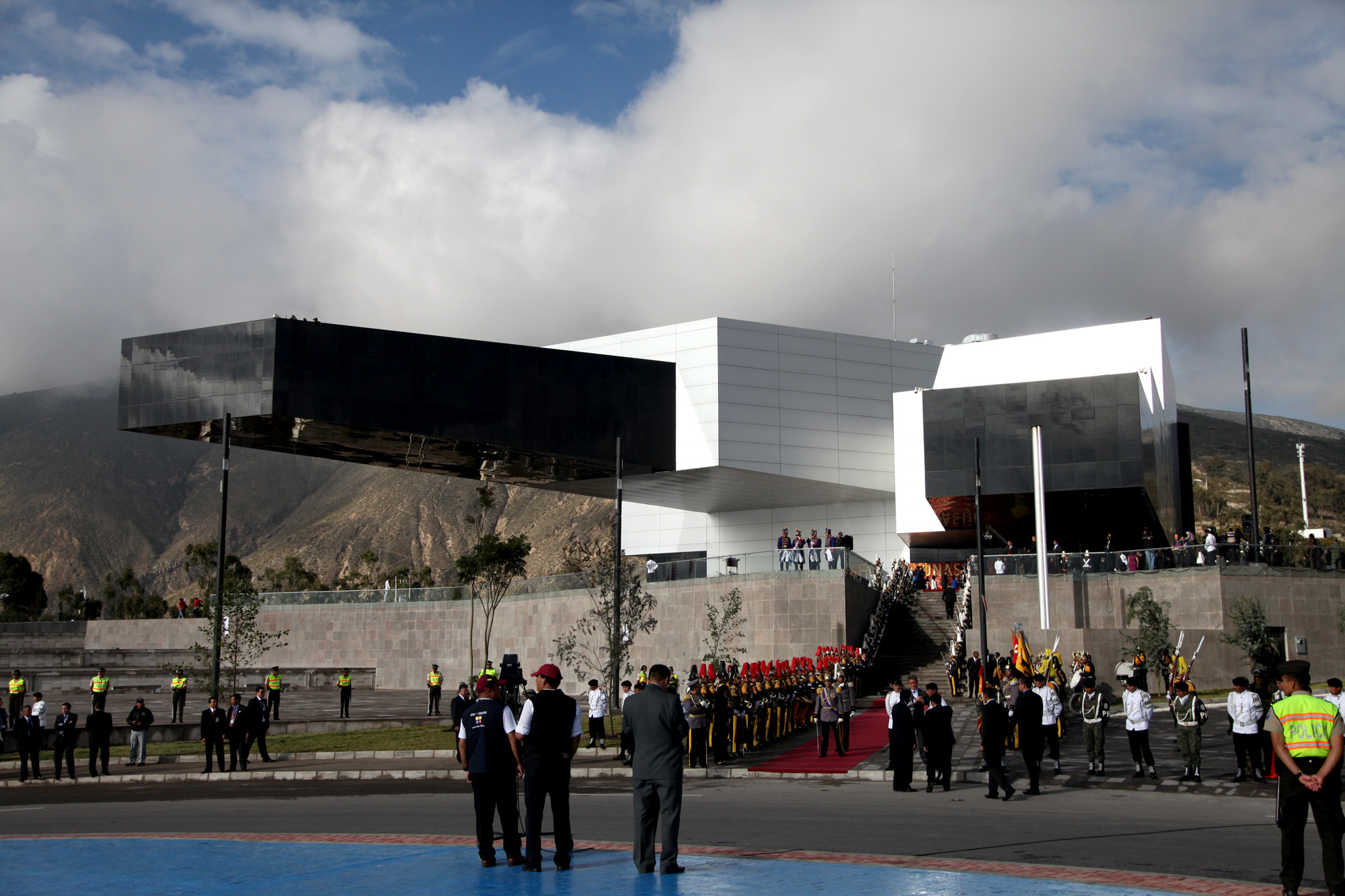 Quito (Ecuador), 05 de diciembre 2014. Inauguración de la nueva sede de UNASUR en la Mitad del Mundo. El Presidente Rafael Correa, el Secretario General de UNASUR Ernesto Samper y el Canciller Ricardo Patiño reciben a los Presidentes y Cancilleres de los paises miembros de UNASUR. Foto: Luis Astudillo - Cancillería del Ecuador.